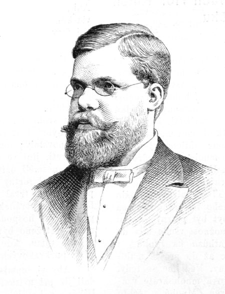 Portrait of JUC. Jan Sedlák (1849-1921), Czech lawyer and politician. Cropped from a gallery of board members of Centennial Exhibition in Prague 1891.